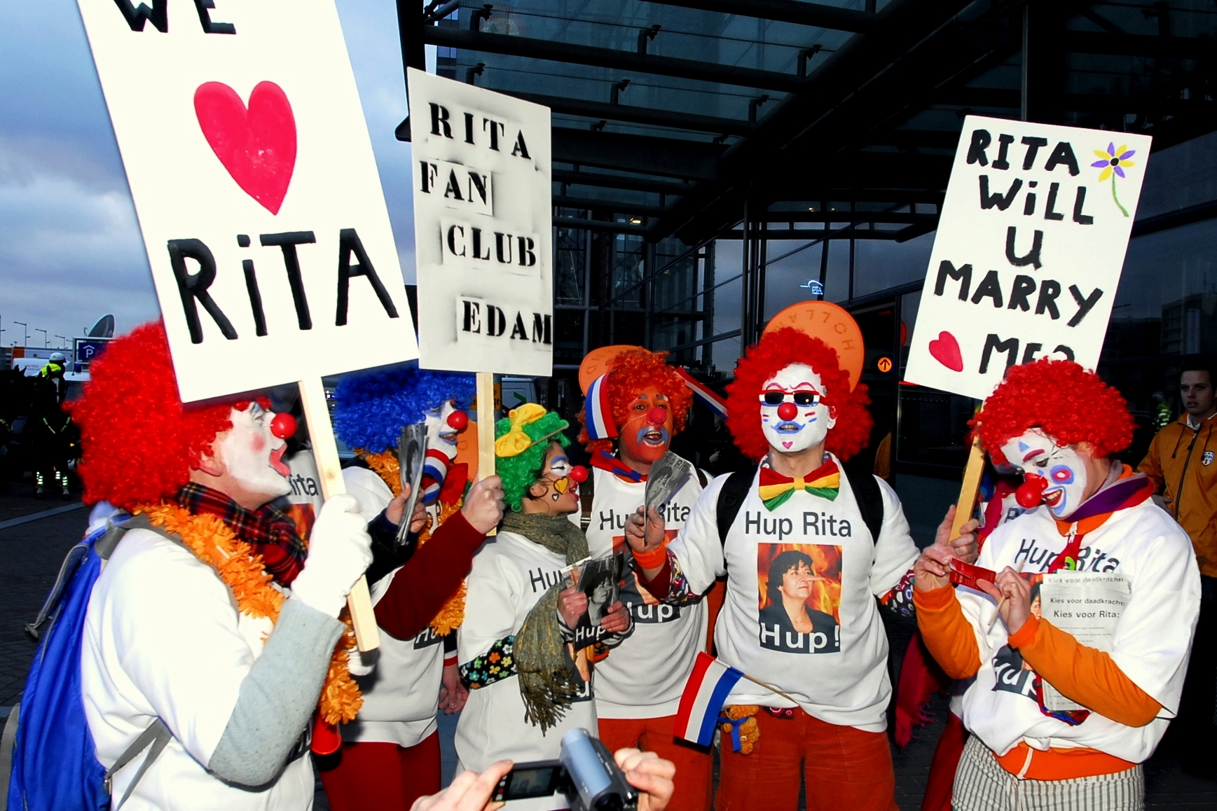 Opponents of the Dutch politician Rita Verdonk disguised as supporters